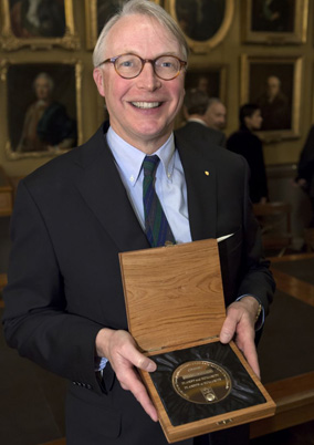 The Swedish ecologist Carl Folke with the IGU Planet and Humanity Medal that he received in 2016